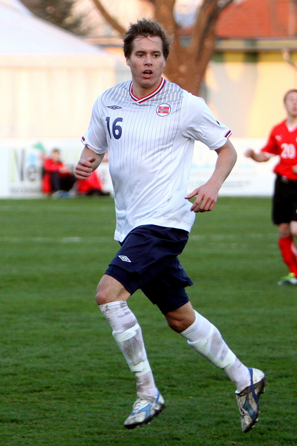 Anders Ågnes Konradsen (Strømsgodset IF) in the Norway national under-21 football team, 2011-03-29